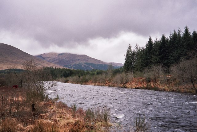 The Orchy. Looking South. Can you pick out the quartz scar it runs down Beinn Udlaidh.